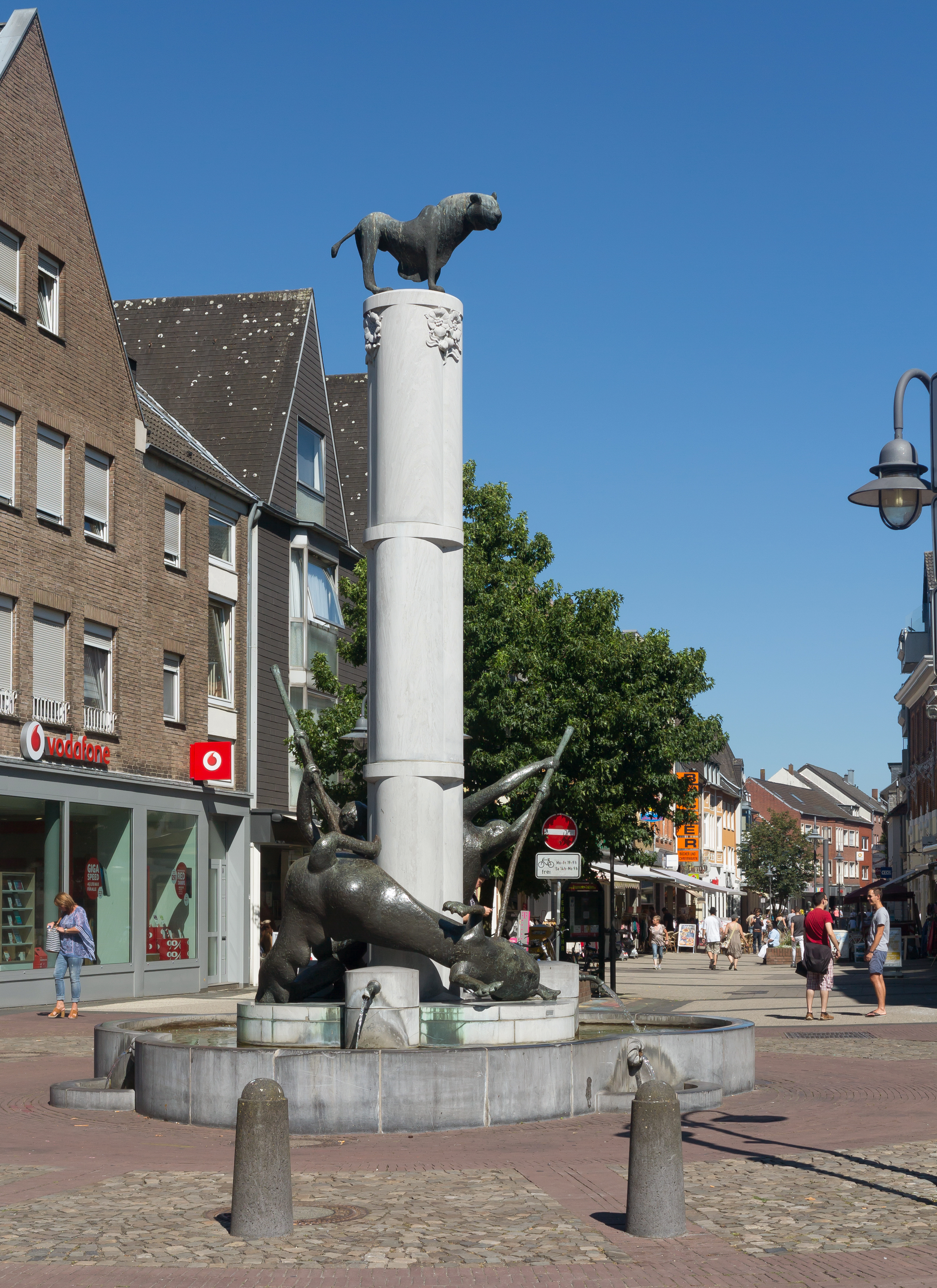 Geldern, sculpture at the Markt